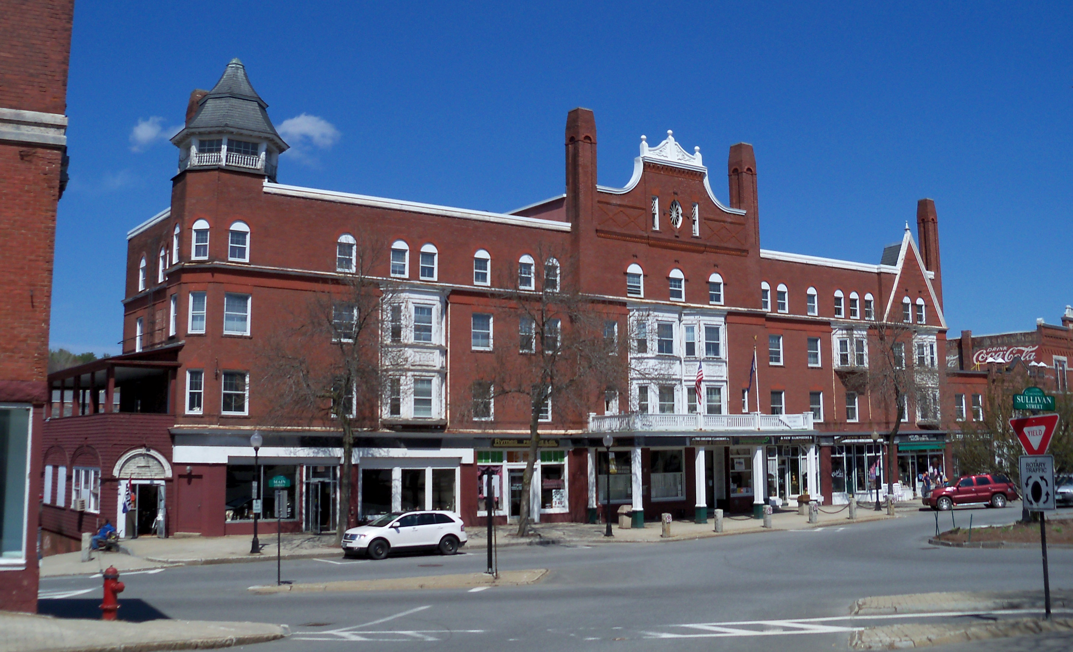 Building in downtown Claremont, New Hampshire, USA.